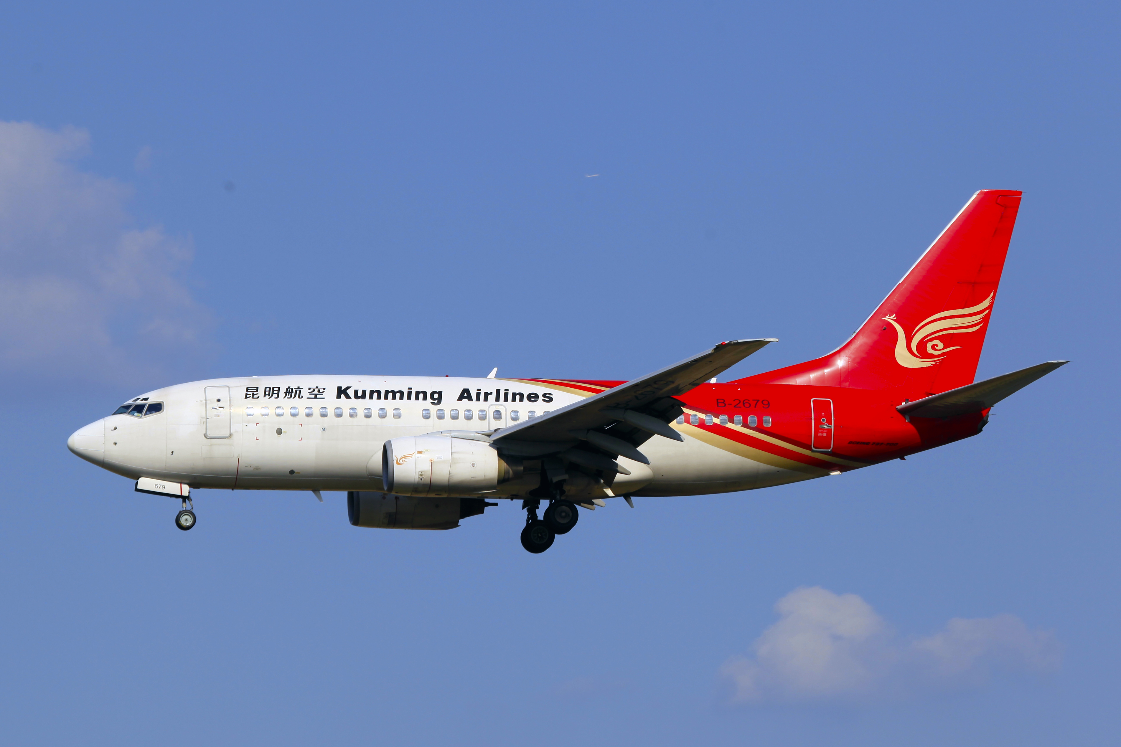 B-2679 | Kunming Airlines | Boeing 737-76N | Qingdao Liuting International Airport [TAO]